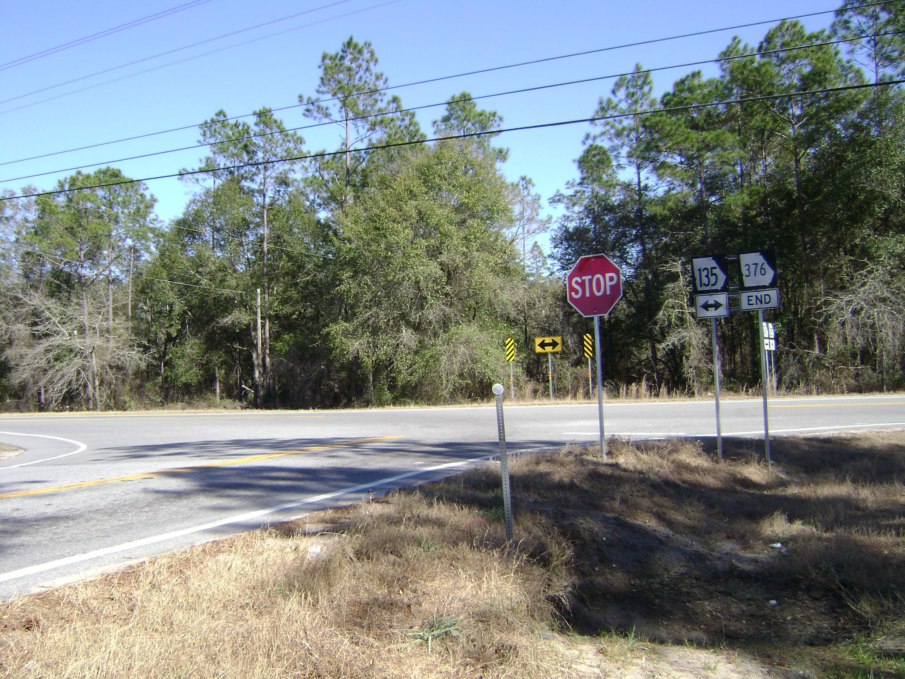 Looking east at end of Georgia State Route 376. Georgia State Route 136 runs north - south here. Echols County, Georgia